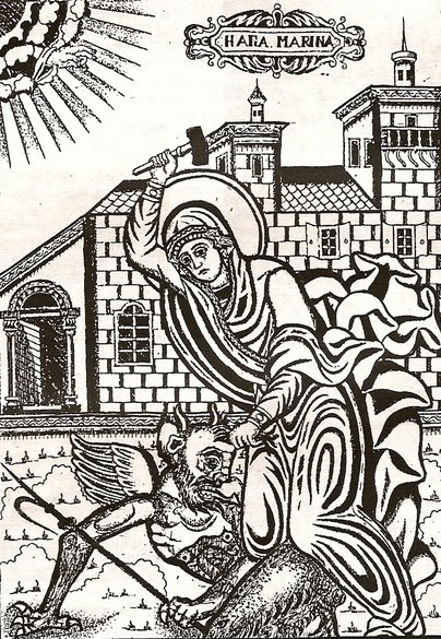 St. Marina of Antioch. An illustration in her hagiography printed in Greece. Date on the picture: 1858.